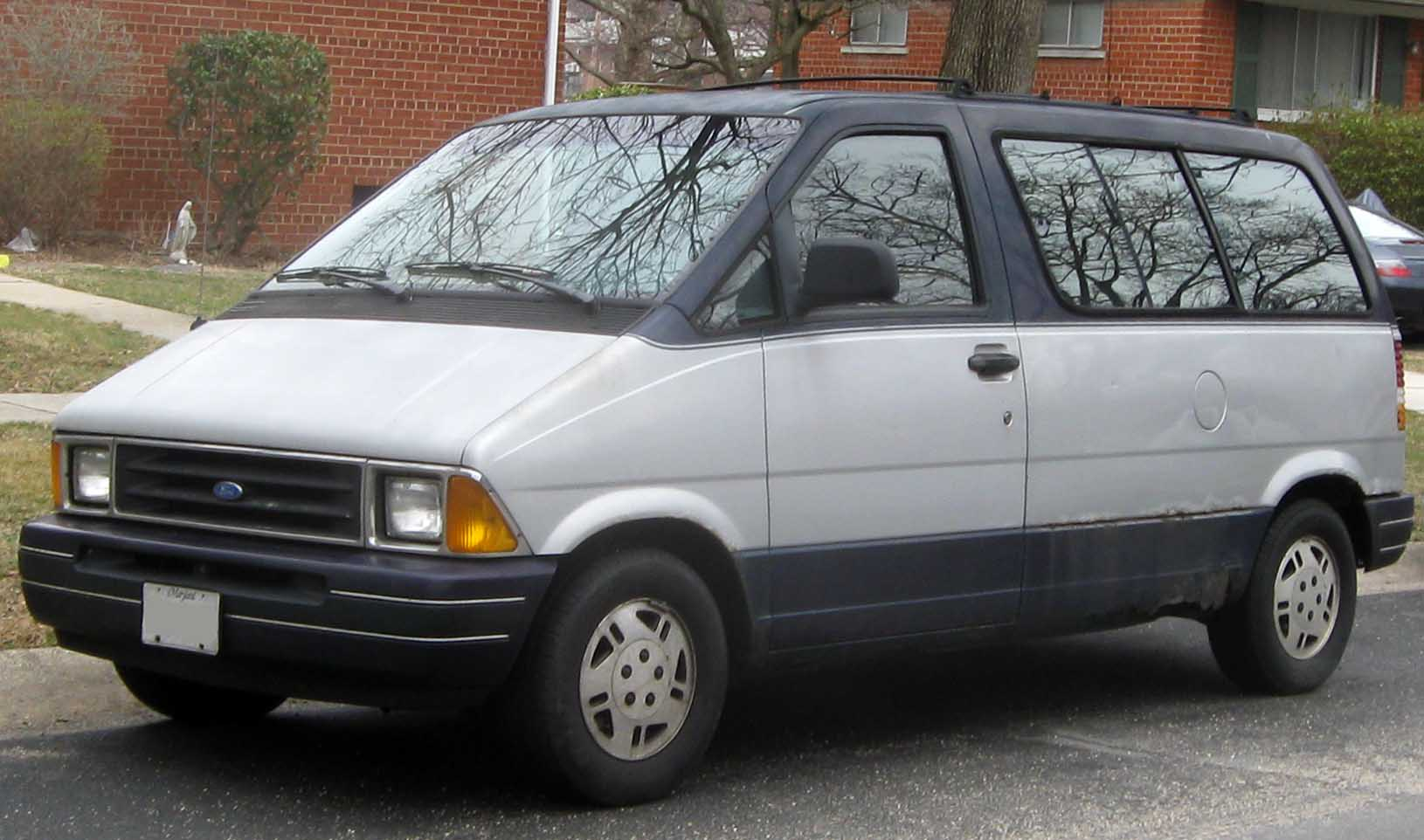 1989-1991 Ford Aerostar photographed in Rockville, Maryland, USA.